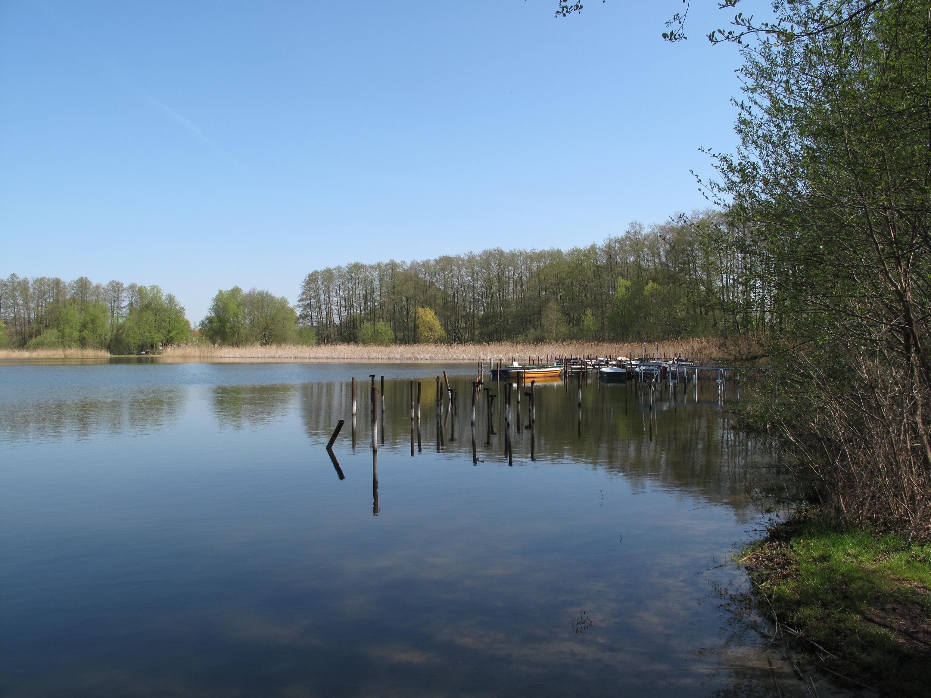 The Großer Seddiner See is a glacial lake in the nature park Nuthe-Nieplitz in Germany, Brandenburg, district Potsdam-Mittelmark, and covers 2,18 km². The lake is situated in the municipalities Seddiner See and Michendorf.